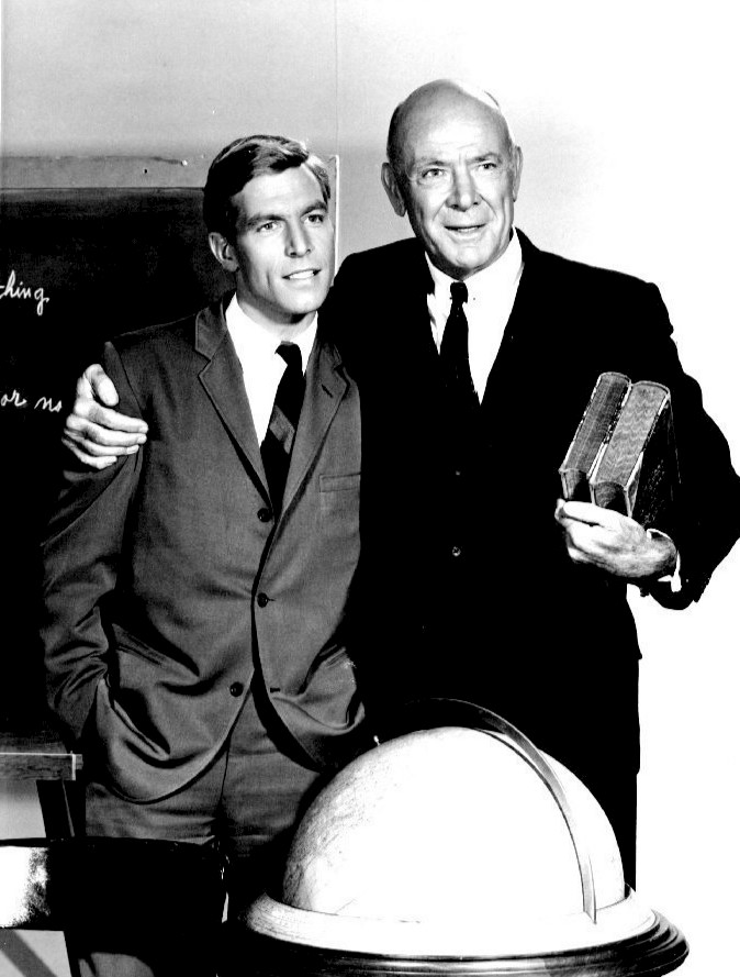 Photo of James Franciscus and Dean Jagger from the television series Mr. Novak.